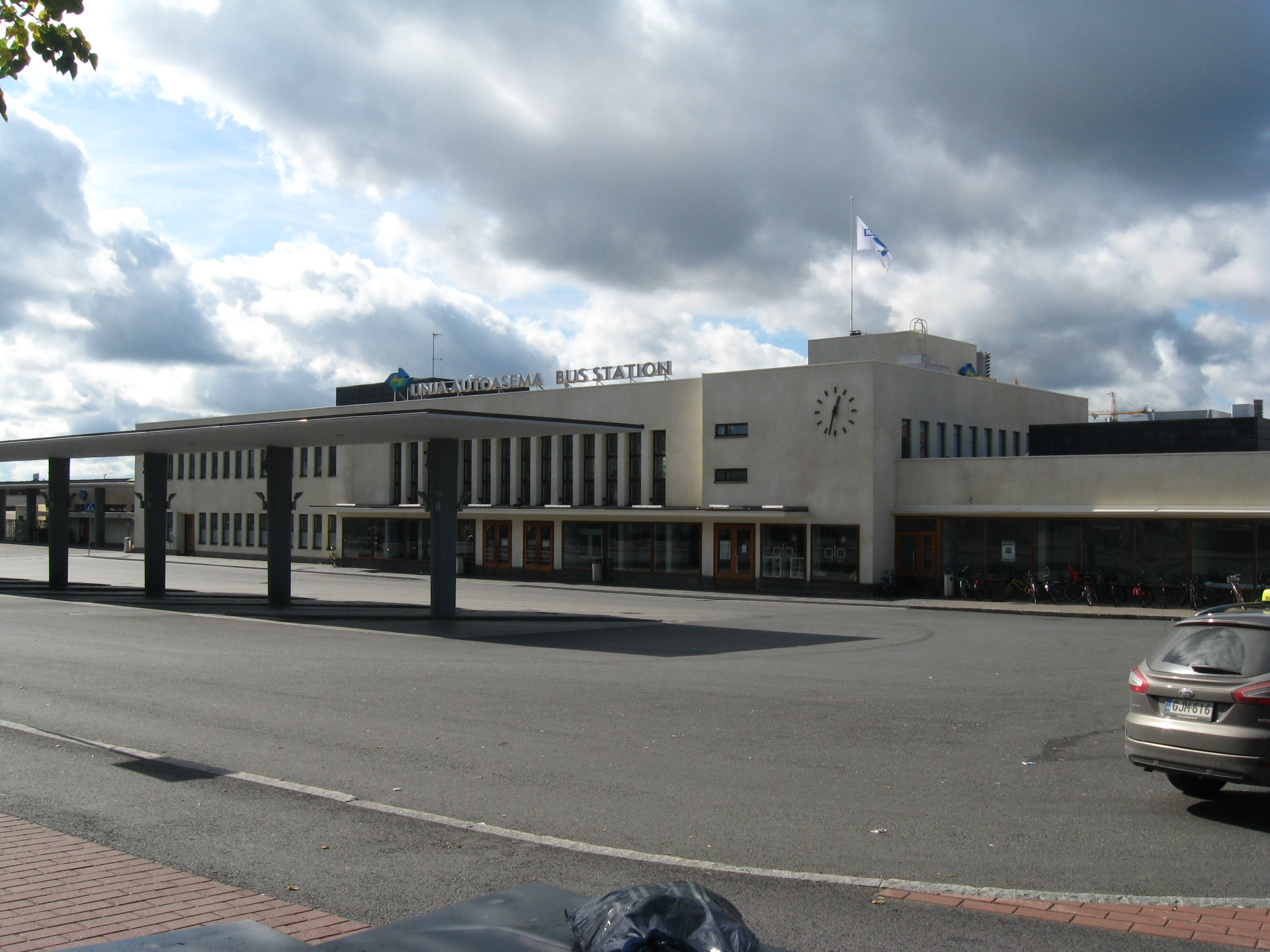 Tampere Bus Station in September 2011.